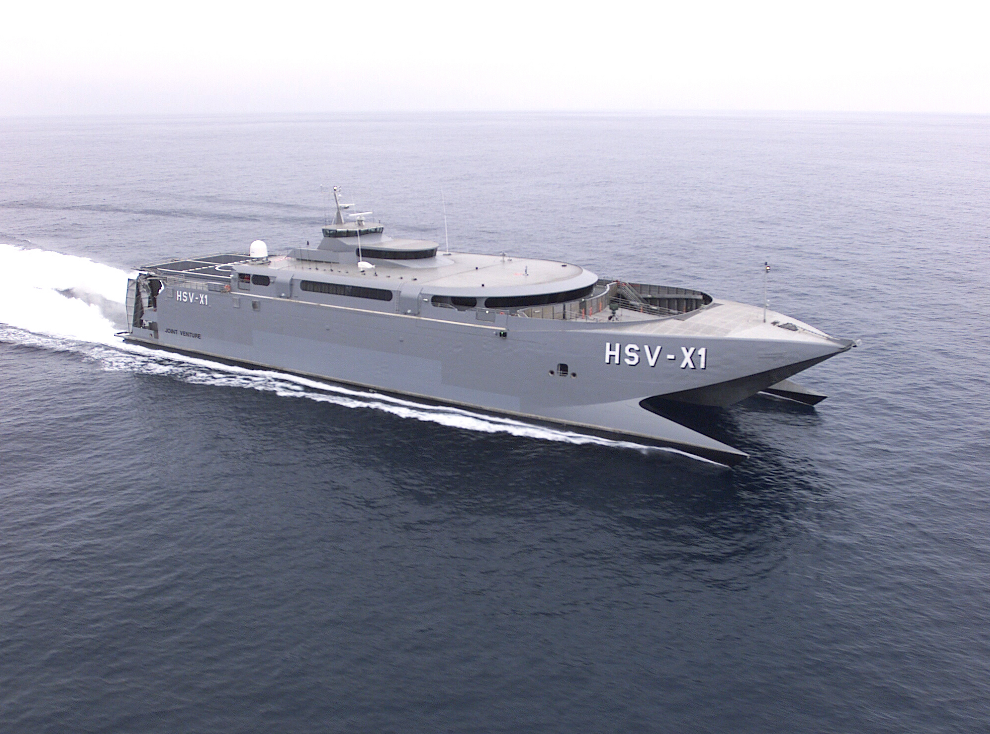 HSV-X1 Joint Venture 020802-N-8894M-003 Pacific Ocean (Aug. 2, 2002) — The high-speed vessel “Joint Venture” (HSV-X1) moves through the waters off the coast of southern California. Joint Venture is participating in Fleet Battle Experiment Juliet (FBE-J) as part of operations supporting Millennium Challenge 2002 (MC-02). MC-02 is the nation's premier joint integrating event, bringing together both live field exercises and computer simulations throughout the Department of Defense.